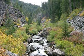 Crooked Creek in Gospel Hump Wilderness — Nez Perce National Forest, western Idaho, U.S.